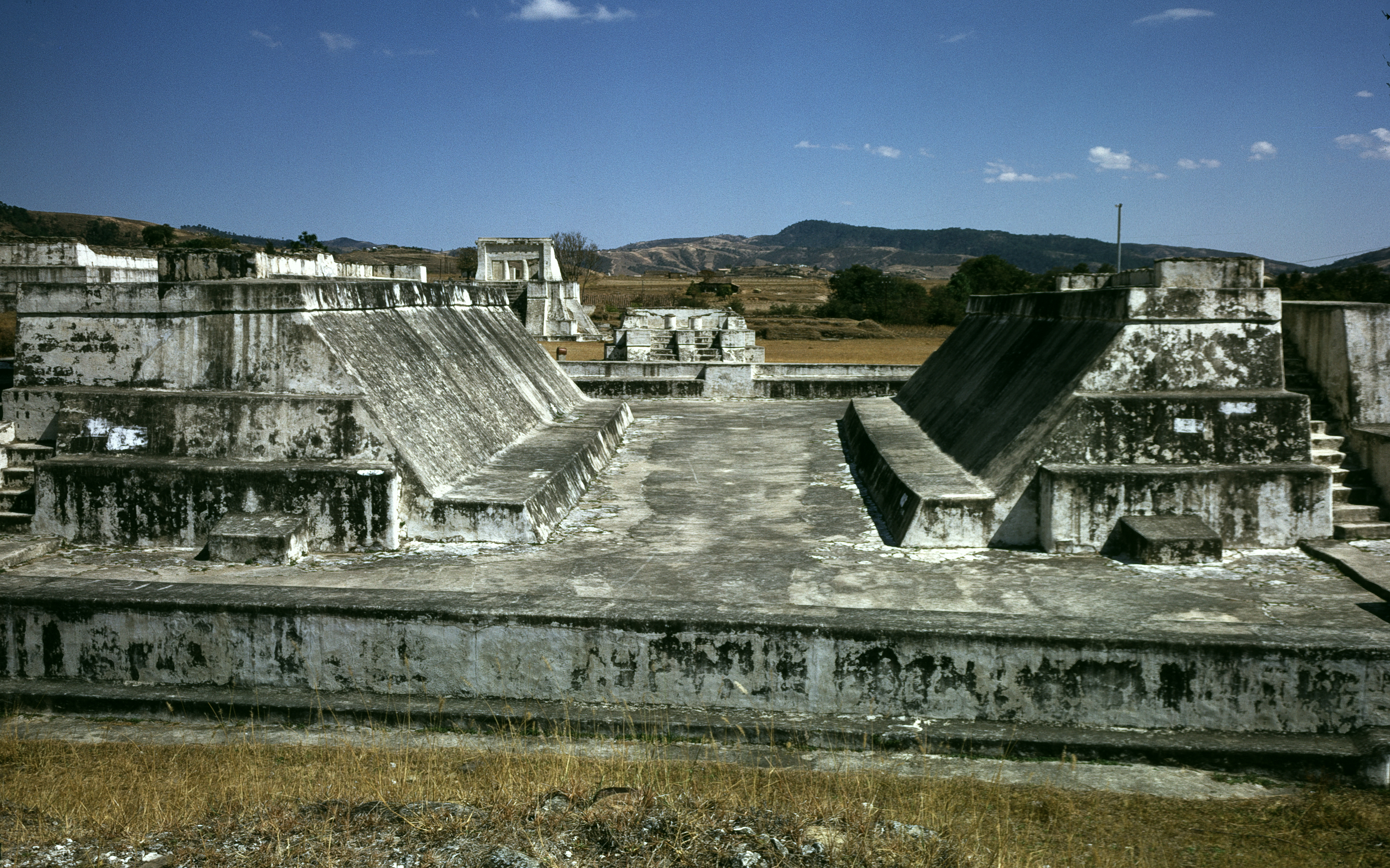 Zacuelu, Guatemala: Ballcourt